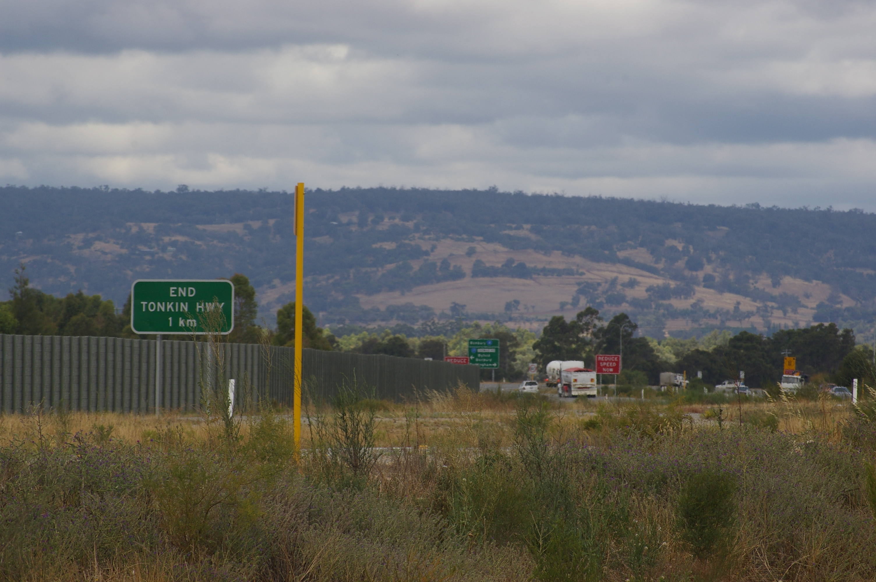 approaching southern end point of Tonkin Highway at Thomas Road Oakford